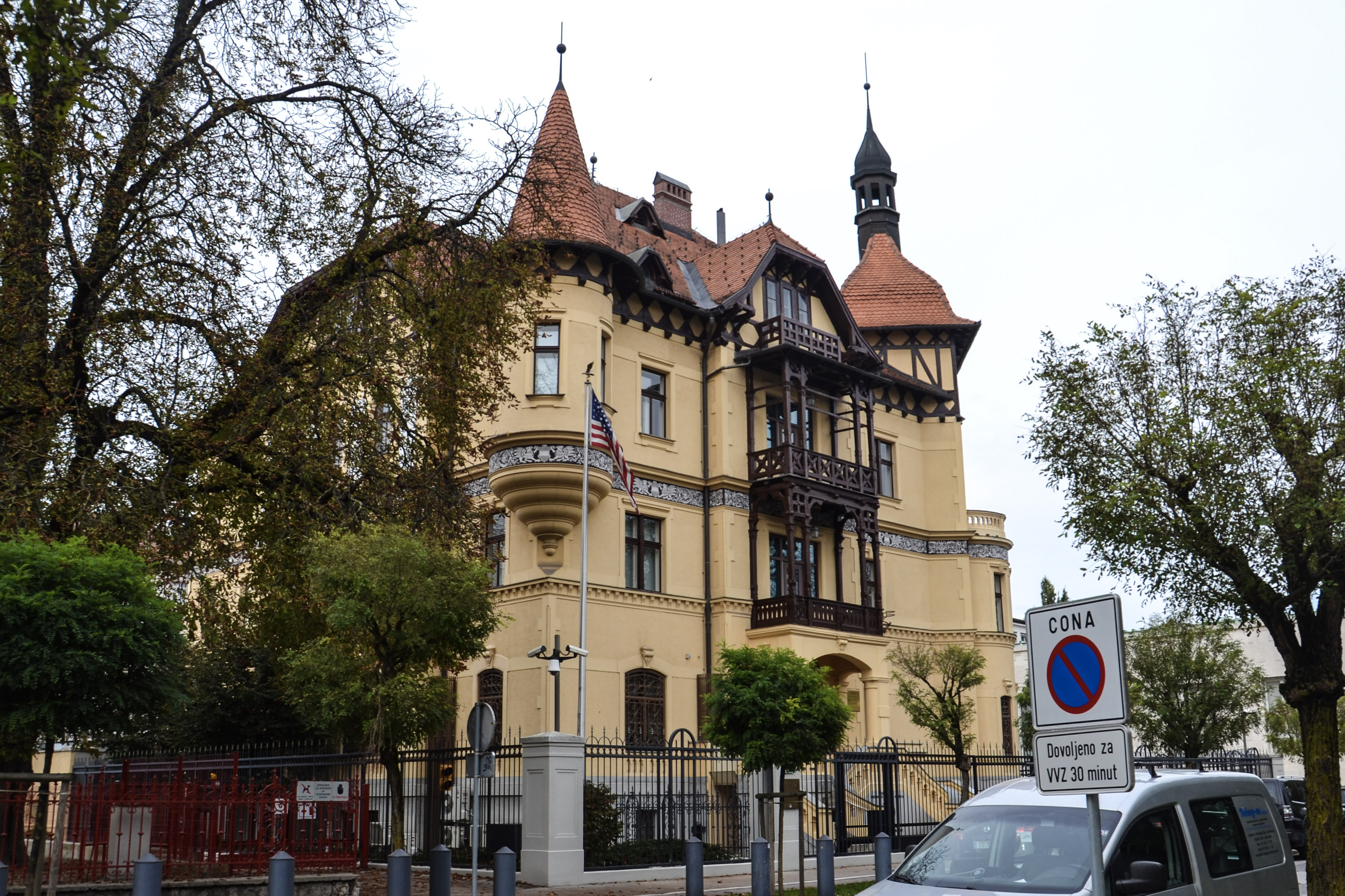 Veleposlanistvo ZDA v Ljubljani Embassy of USA in Ljubljana Slovenia